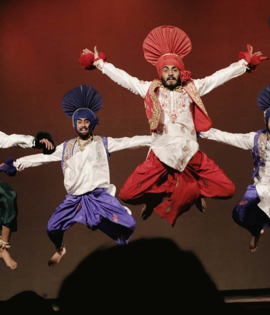 This photo has been taken in the country: India